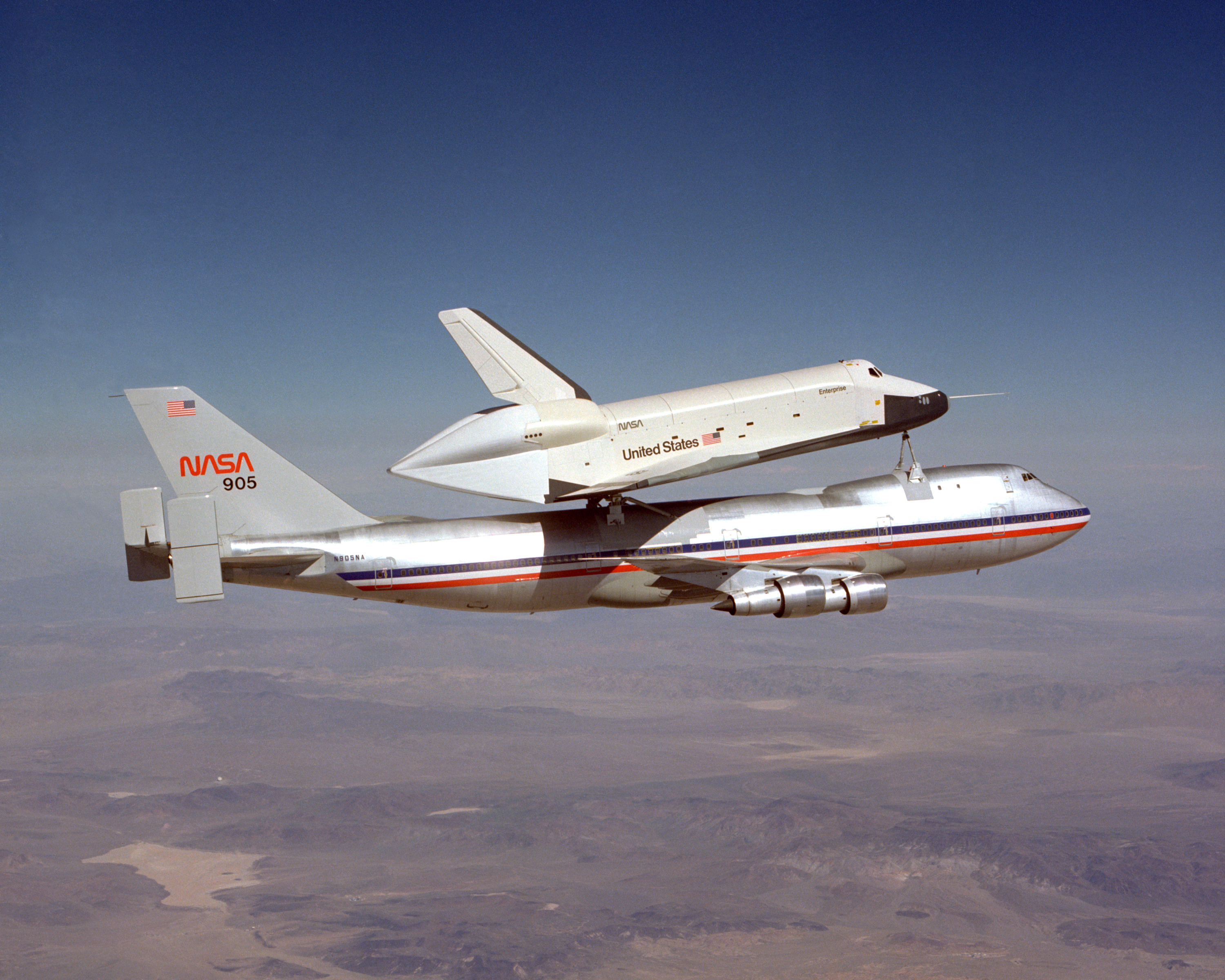 The Space Shuttle prototype Enterprise rides smoothly atop NASA's first Shuttle Carrier Aircraft (SCA), NASA 905, during the first of the shuttle program's Approach and Landing Tests (ALT) at the Dryden Flight Research Center, Edwards, California, in 1977. During the nearly one year-long series of tests, Enterprise was taken aloft on the SCA to study the aerodynamics of the mated vehicles and, in a series of five free flights, tested the glide and landing characteristics of the orbiter prototype. In this photo, the main engine area on the aft end of Enterprise is covered with a tail cone to reduce aerodynamic drag that affects the horizontal tail of the SCA, on which tip fins have been installed to increase stability when the aircraft carries an orbiter.